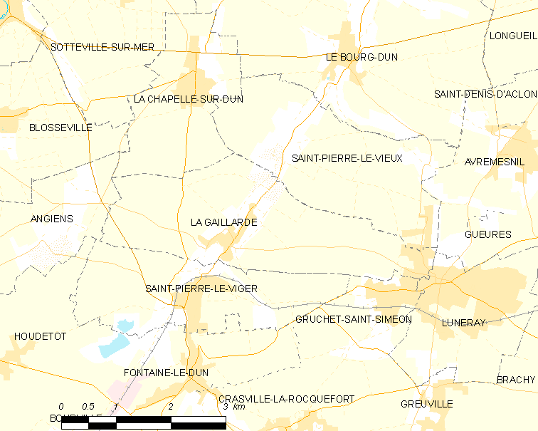 Map of French municipality La Gaillarde